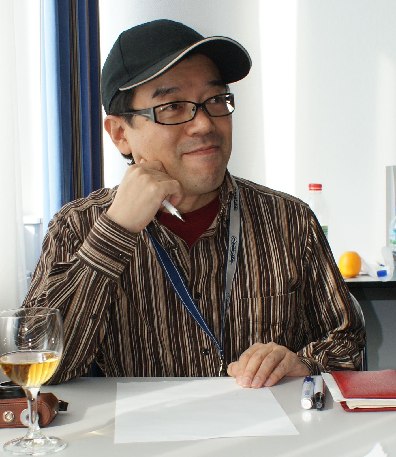 Picture made at Connichi 2008. Person in picture gave permission through translator (de/ja)